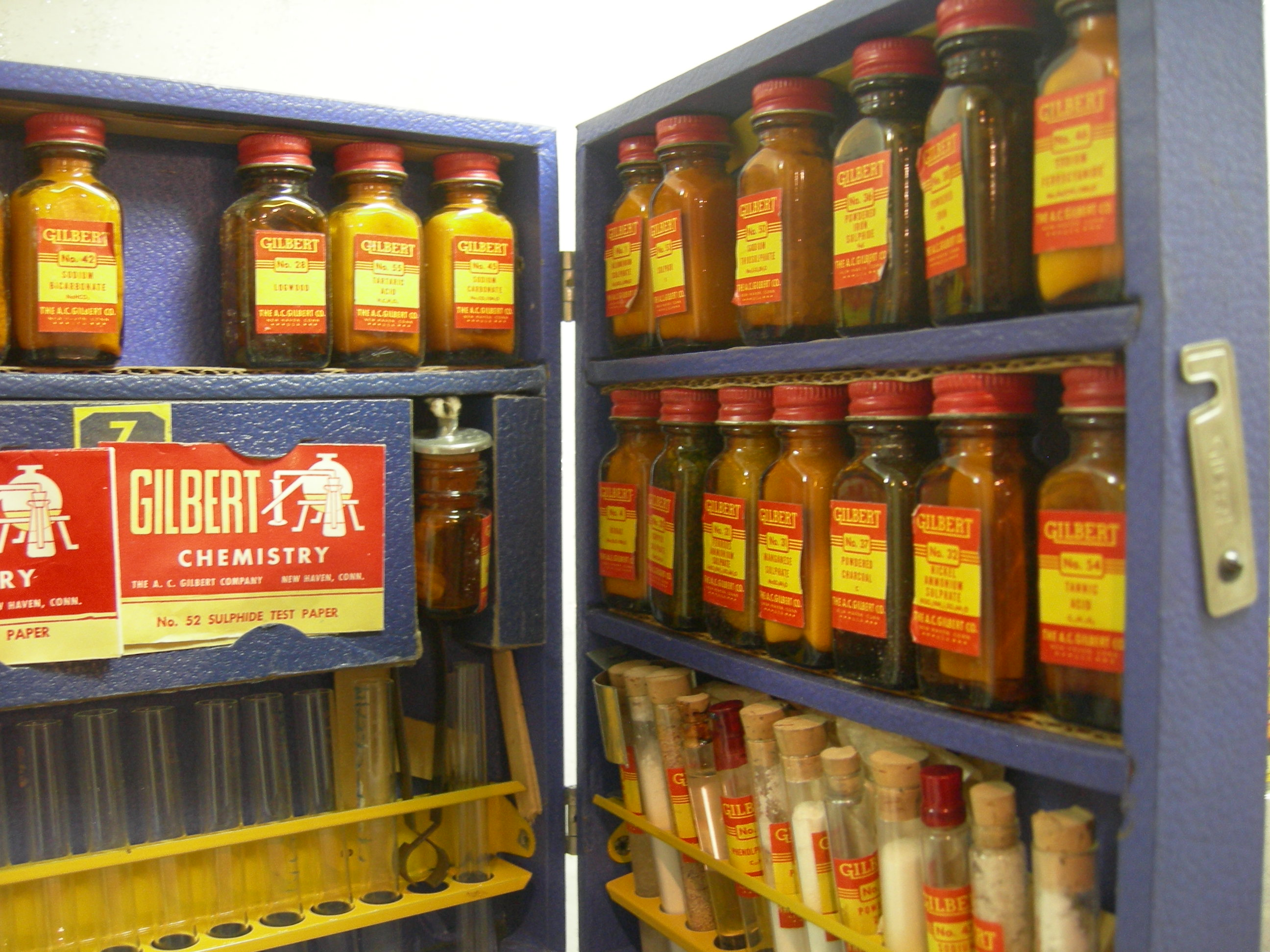 1940s Gilbert chemistry set. Photographed at Shoreline Historical Museum, Shoreline, Washington.